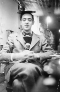 Bill Simon in the 1940s